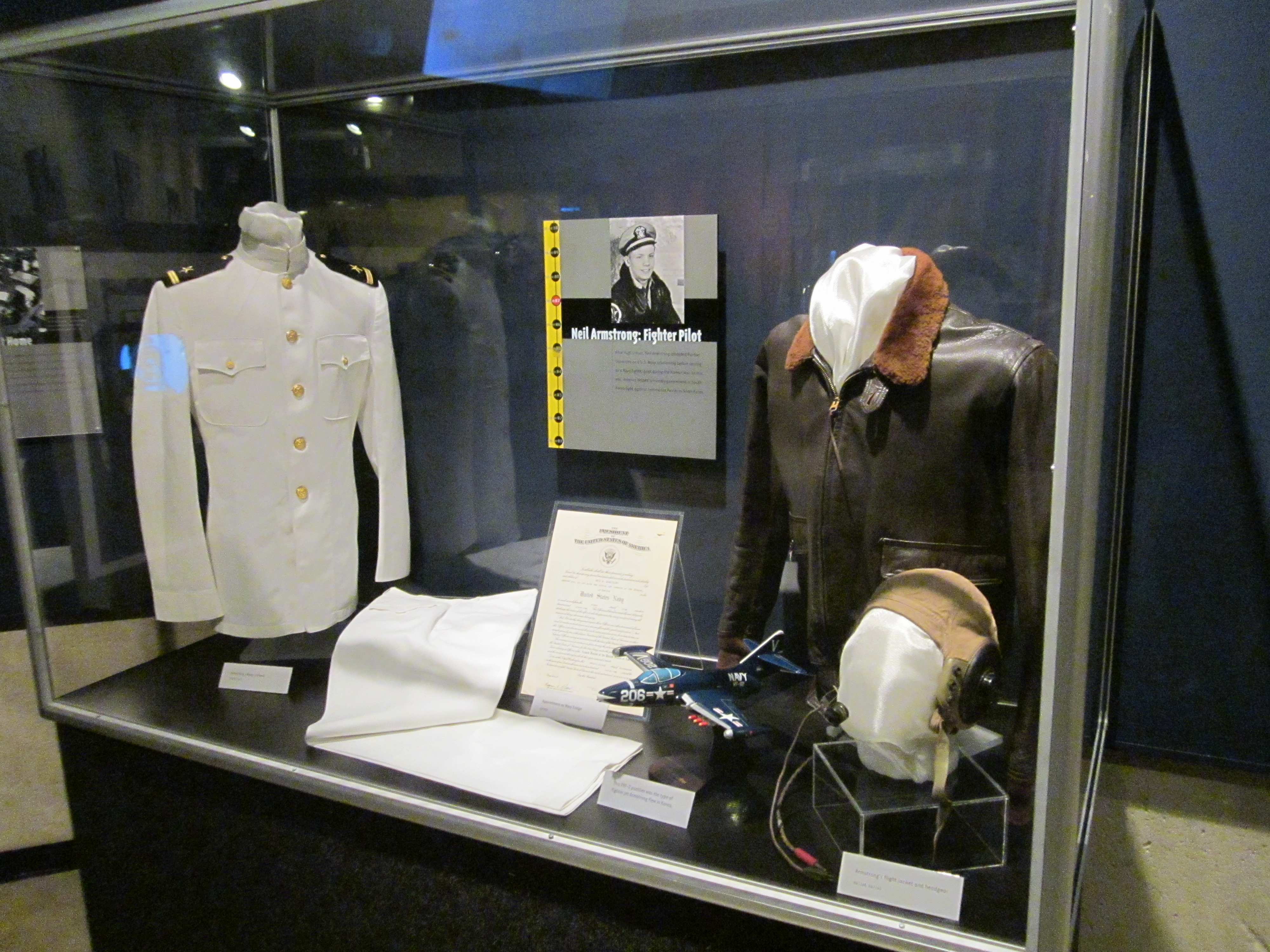 Exhibit of Neil Armstrong Spacewear